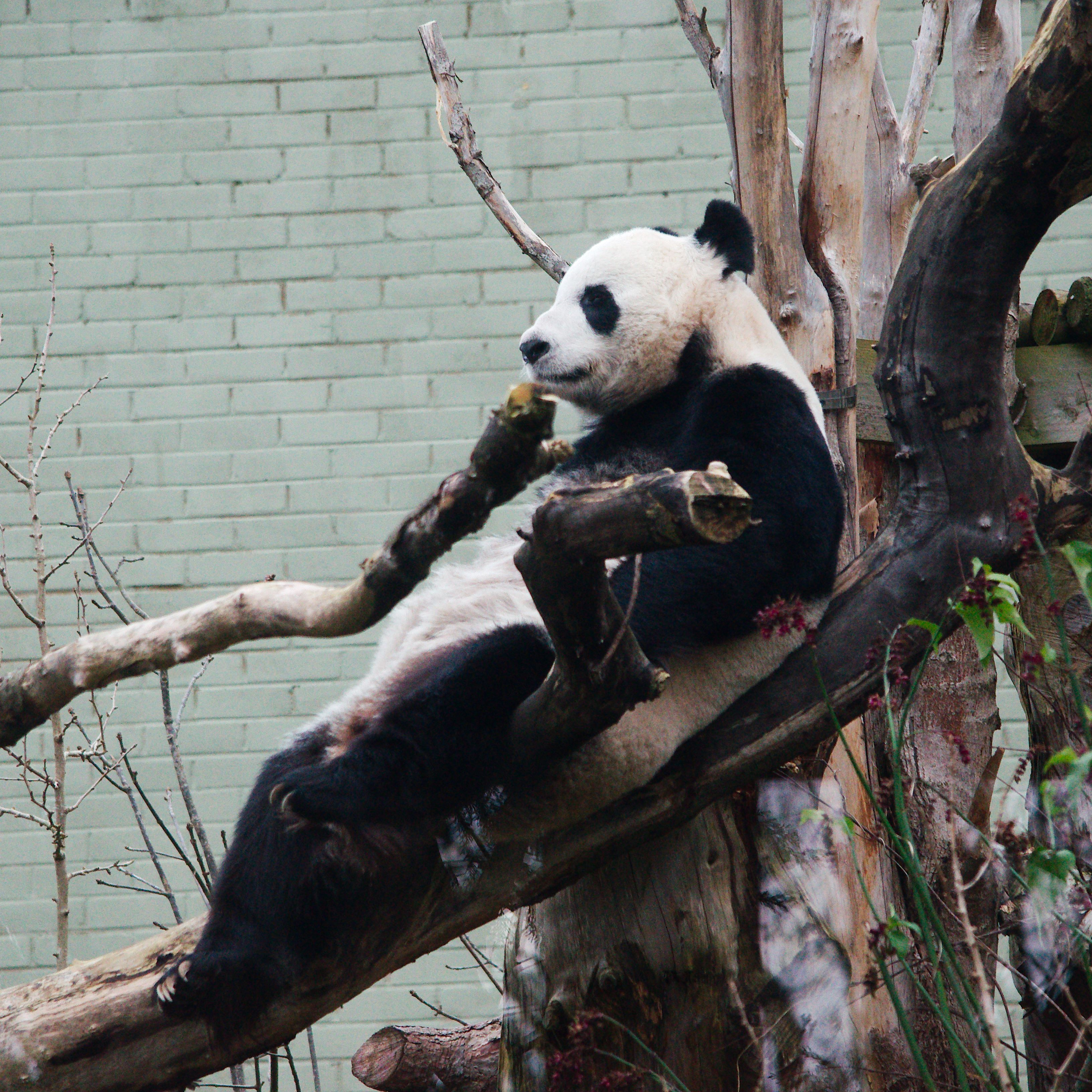 Tián Tián (甜甜) the panda sitting on branches at Edinburgh Zoo